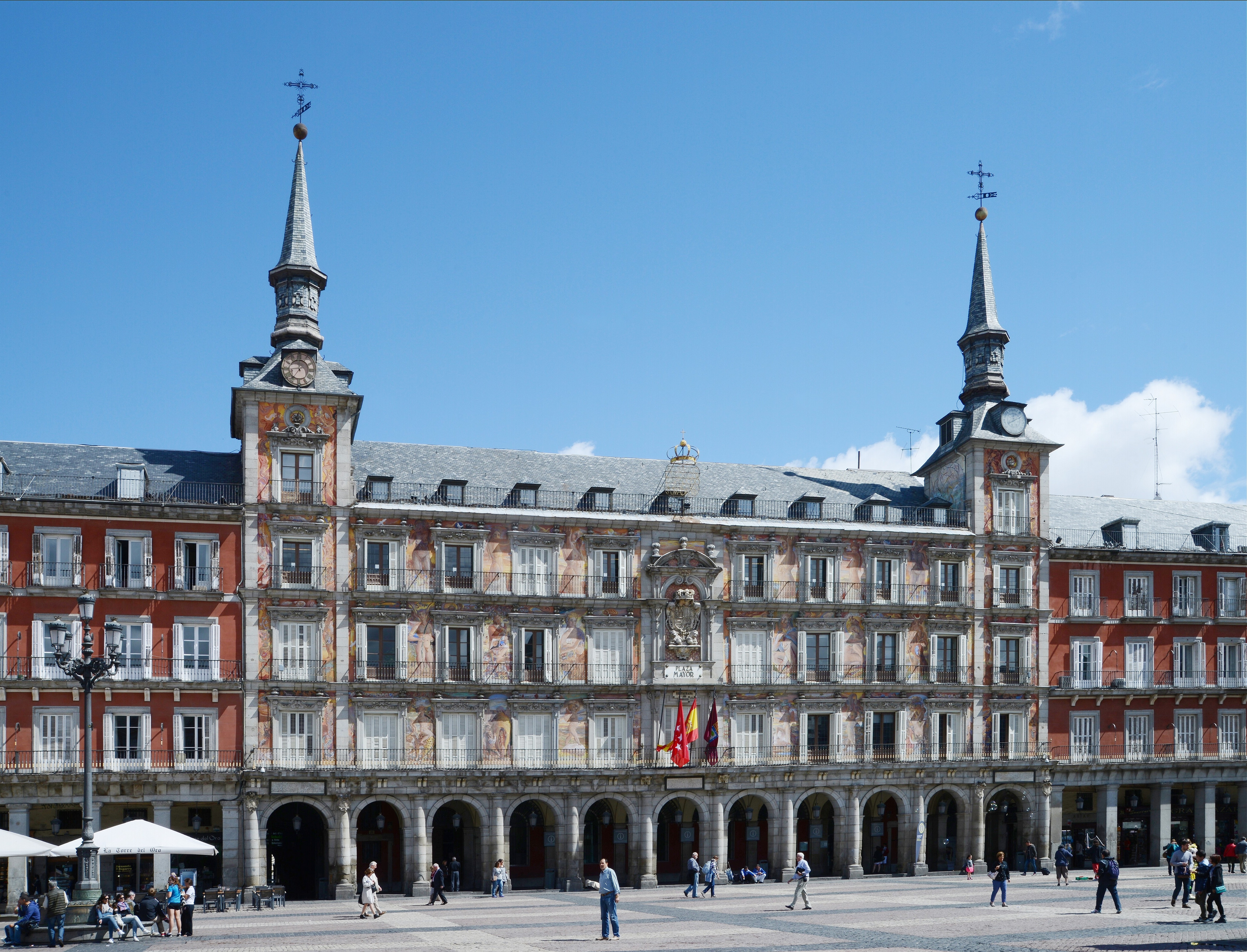 Casa de la Panaderia, Plaza Mayor, Madrid